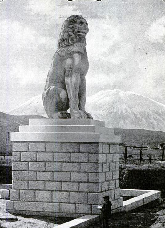 Photograph of the Lion of Chaeronea . It was erected by the Thebans in memory of their dead after the battle of Chaeronea. Excavation of the tomb brought to light 254 skeletons, laid out in seven rows